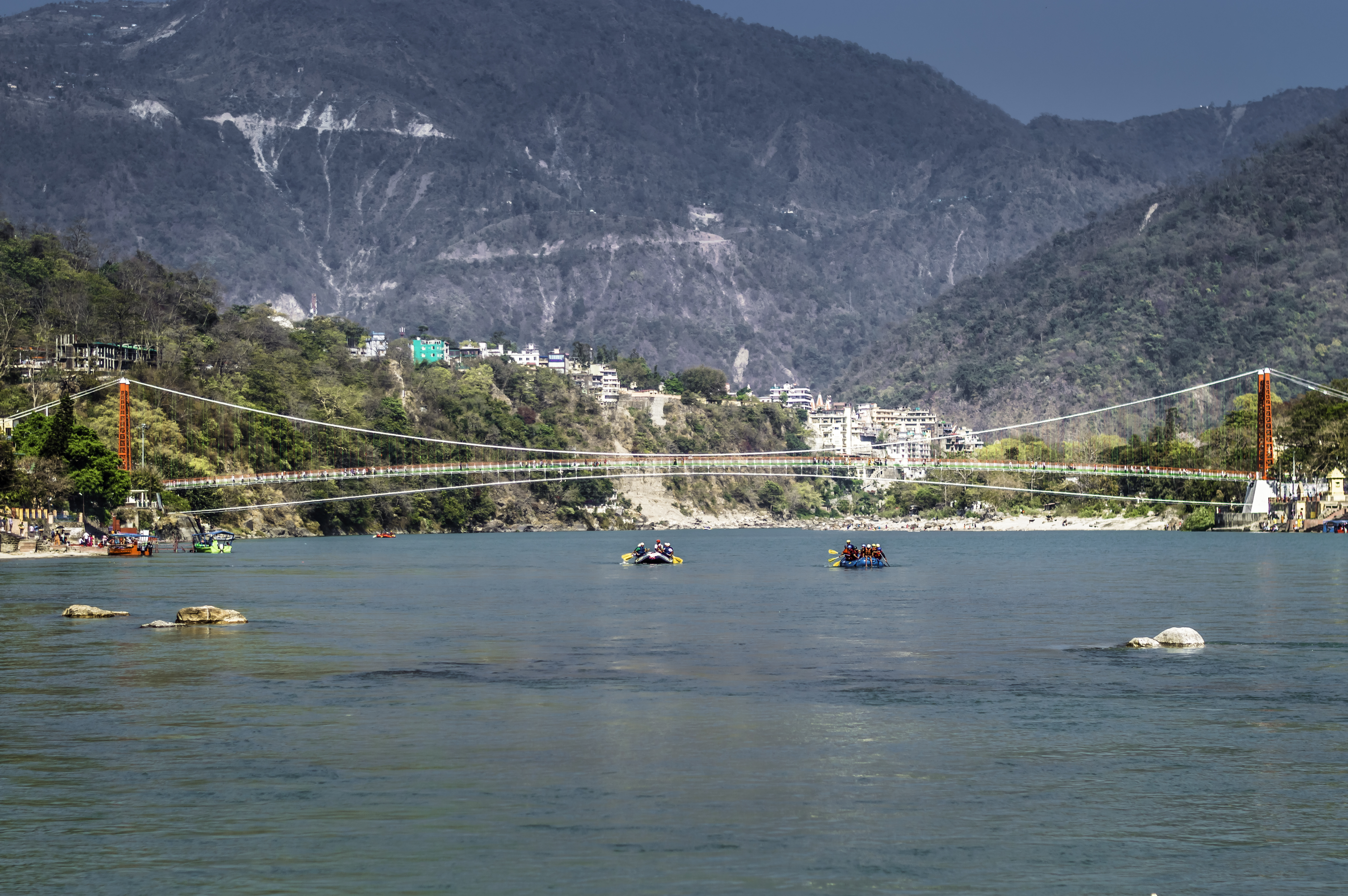 The holy river Ganga and Ram Jhula in the background at Rushikesh.